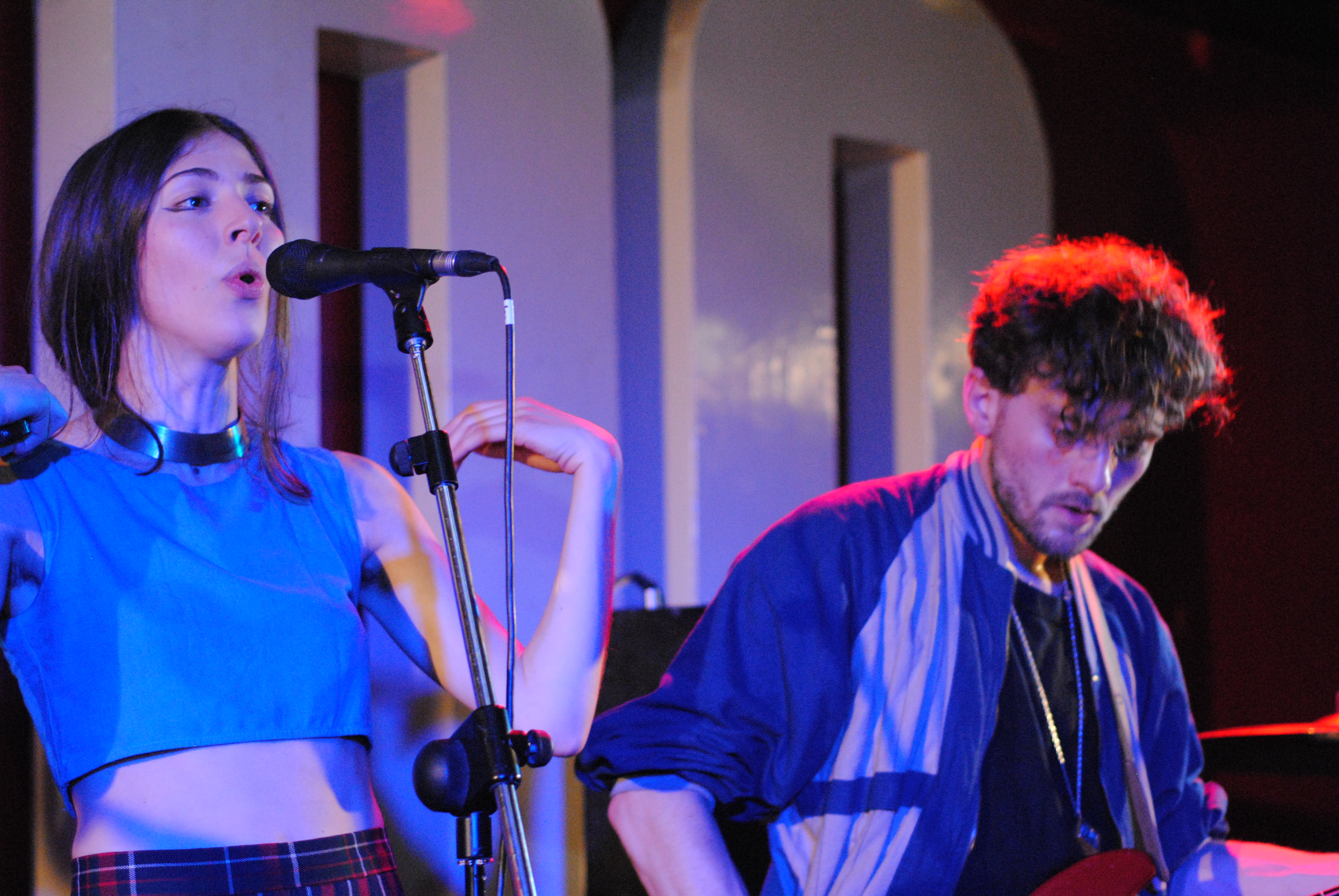 Chairlift 100 club 001